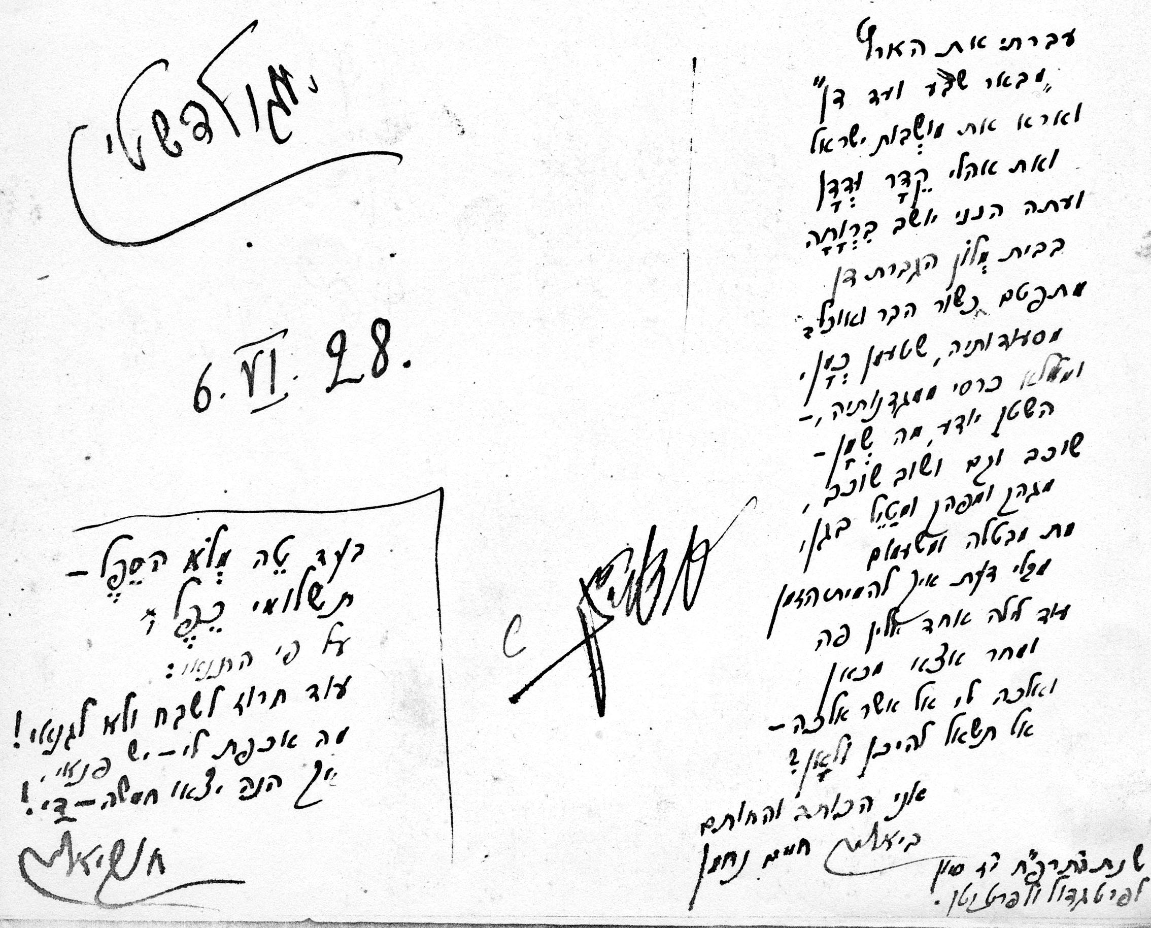 Haim Nachman Bialik's poem in the guest book.